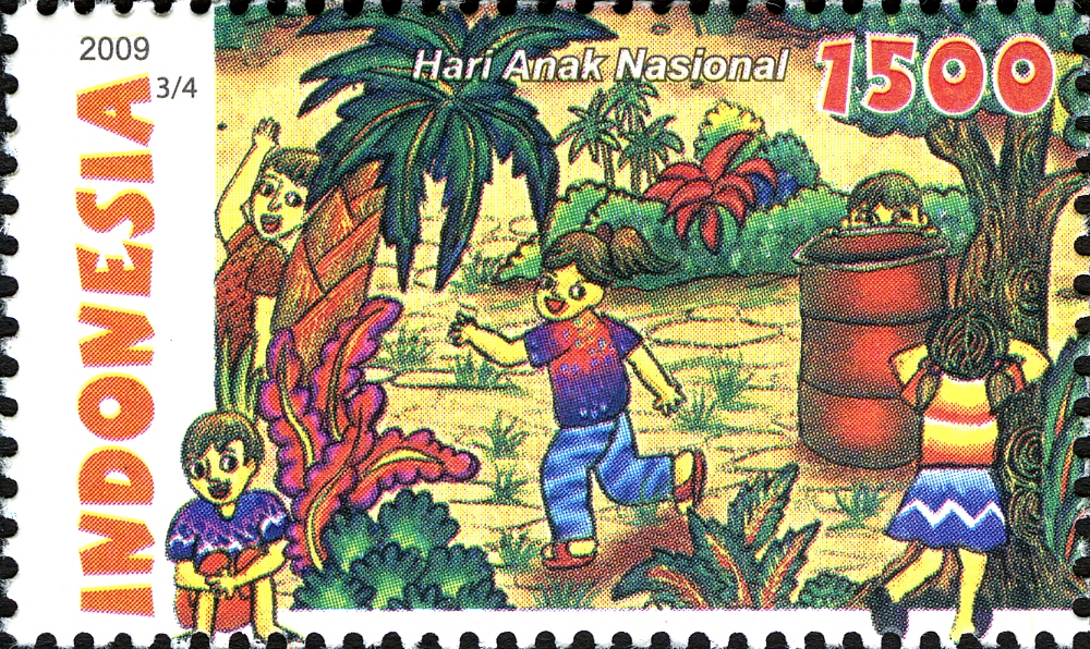 Stamps of Indonesia